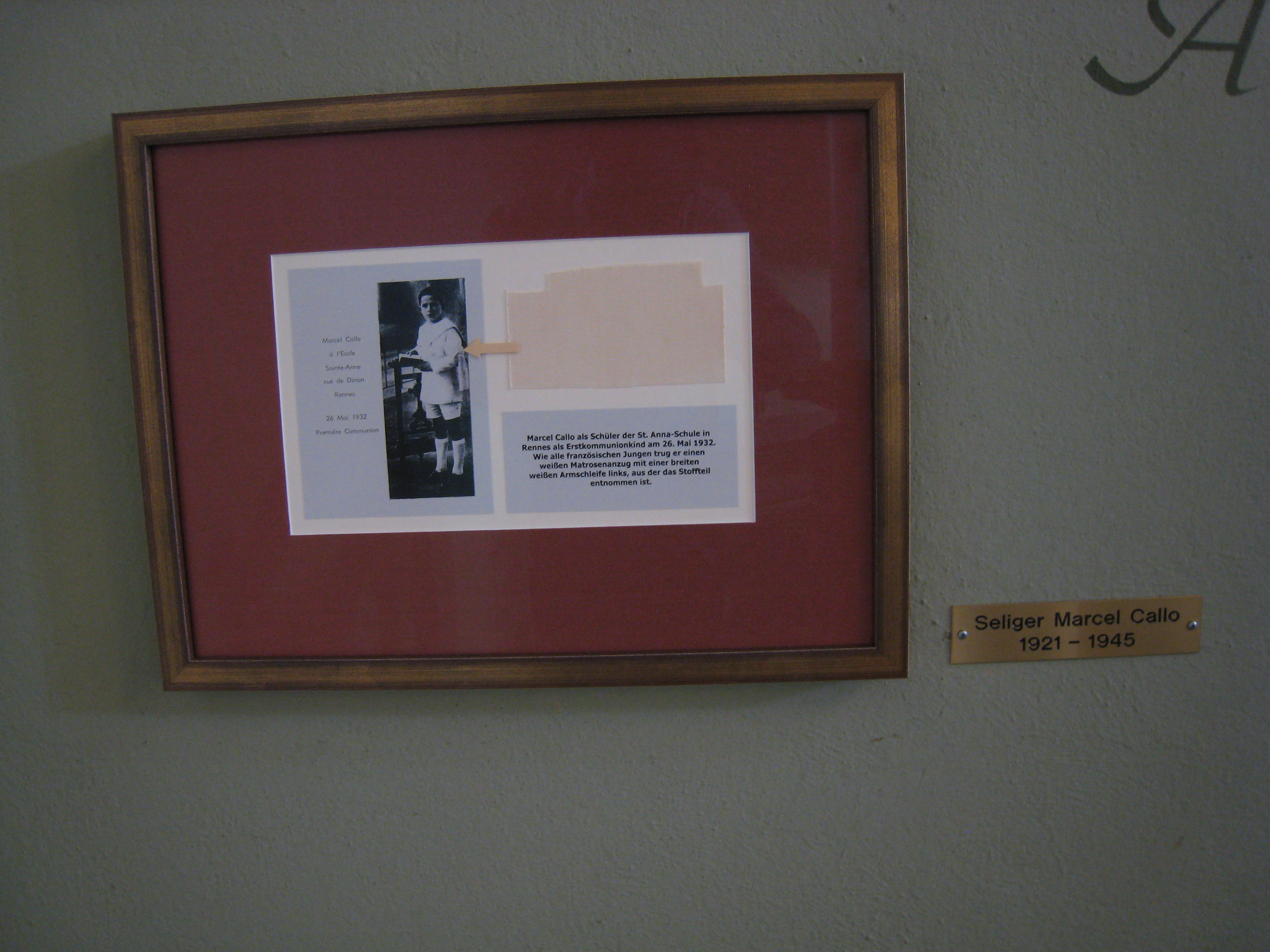 Commemorative tablet and relics of Marcel Callo in the catholic Ascension church in Arnstadt